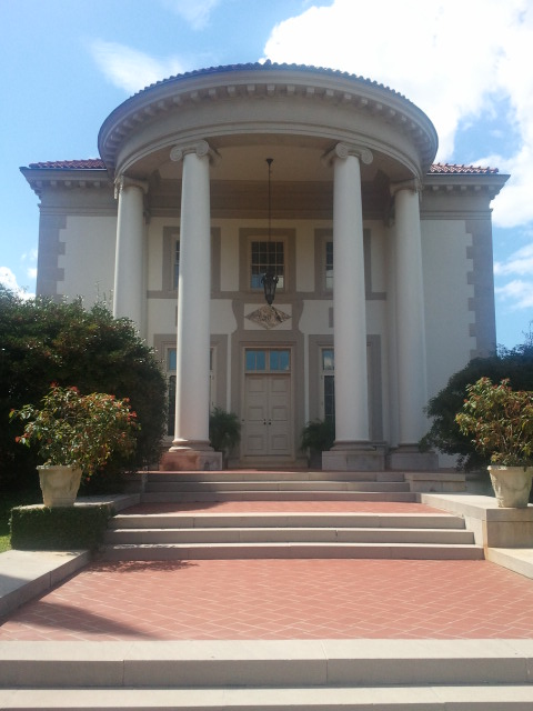 Front view of the Hills and Dales Estate, part of the Vernon Road Historic District